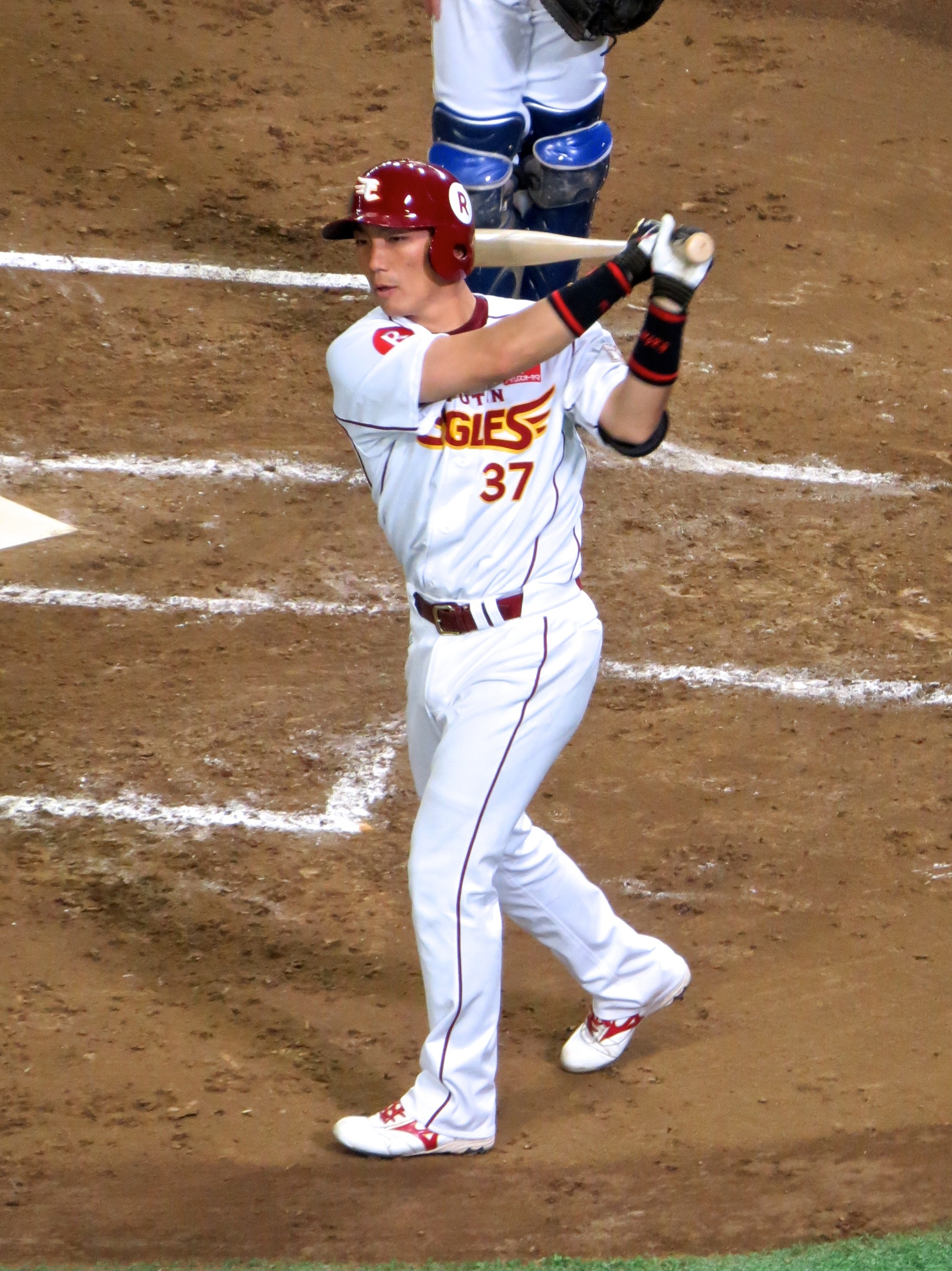 Motohiro Shima, catcher of the Tohoku Rakuten Golden Eagles, at Tokyo Dome